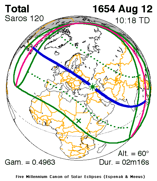 "Eclipse Predictions by Fred Espenak, NASA/GSFC". Prediction for 12 August, 1654